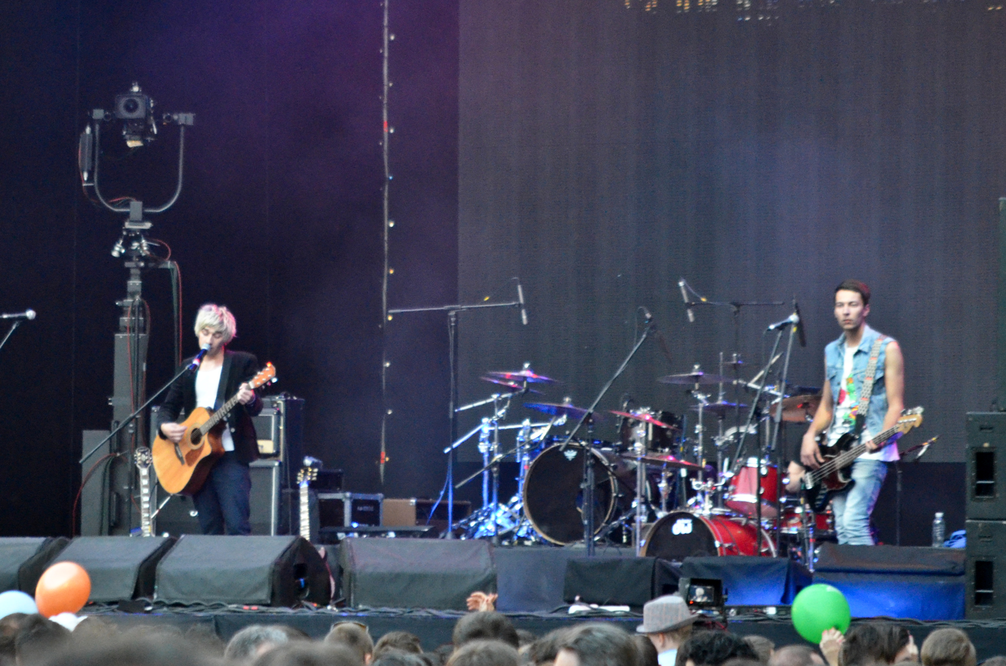 Fontaliza opening for Okean Elzy at NSC Olimpiyskiy